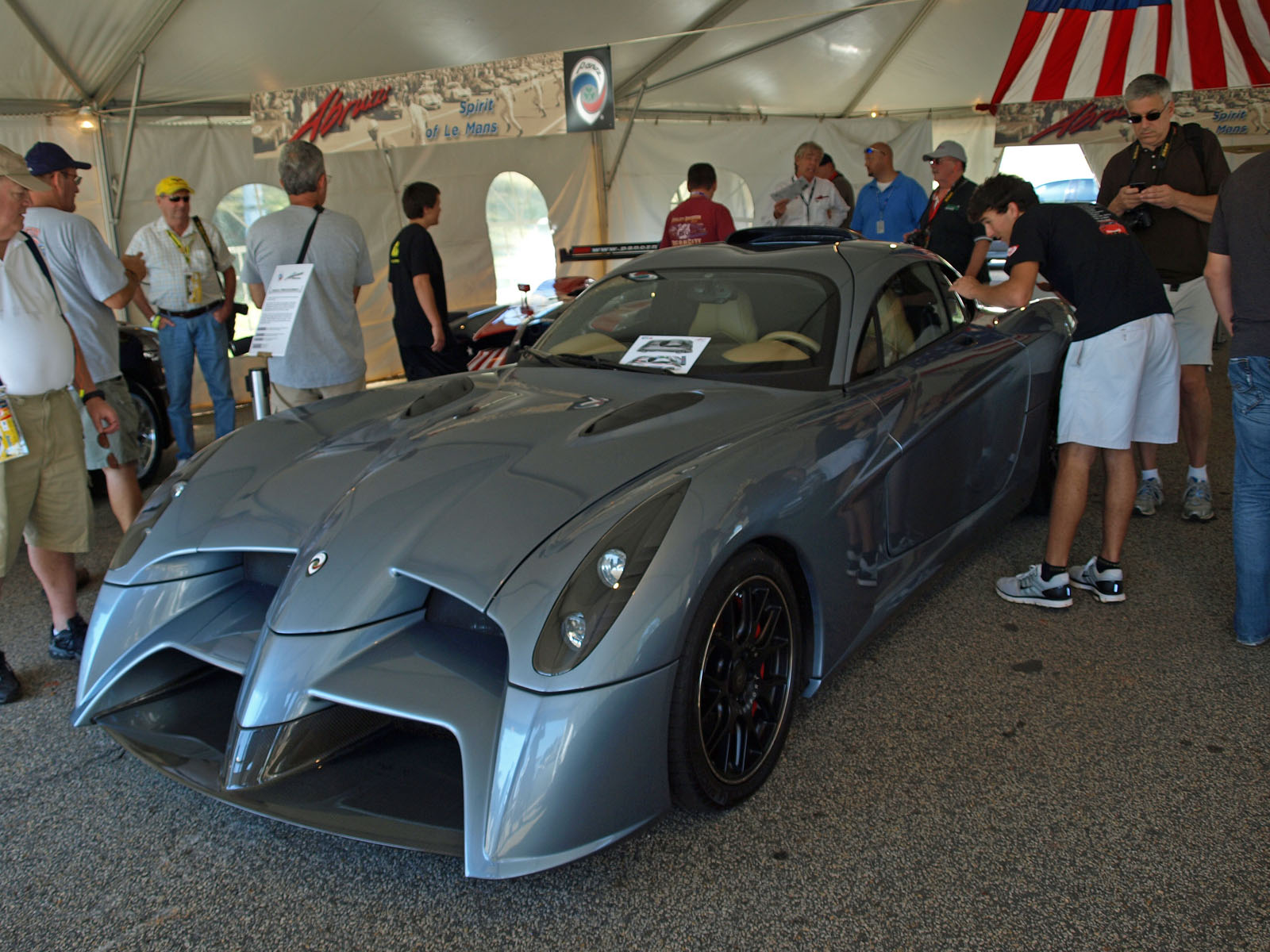 The Panoz Abruzzi on display at the 2010 Petit Le Mans.